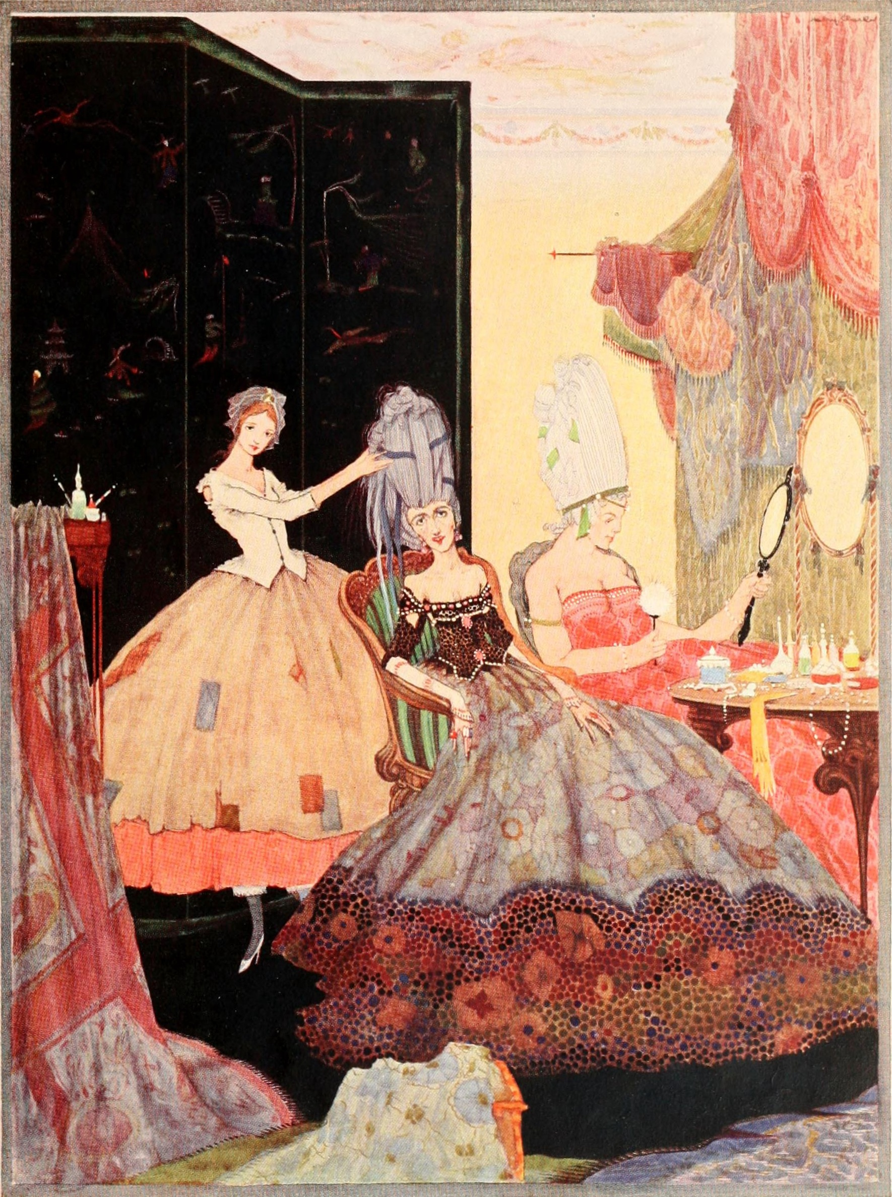 Illustration in The fairy tales of Charles Perrault Perrault, Charles, 1628-1703; Clarke, Harry, 1889-1931, illustrator. London: Harrap (1922)